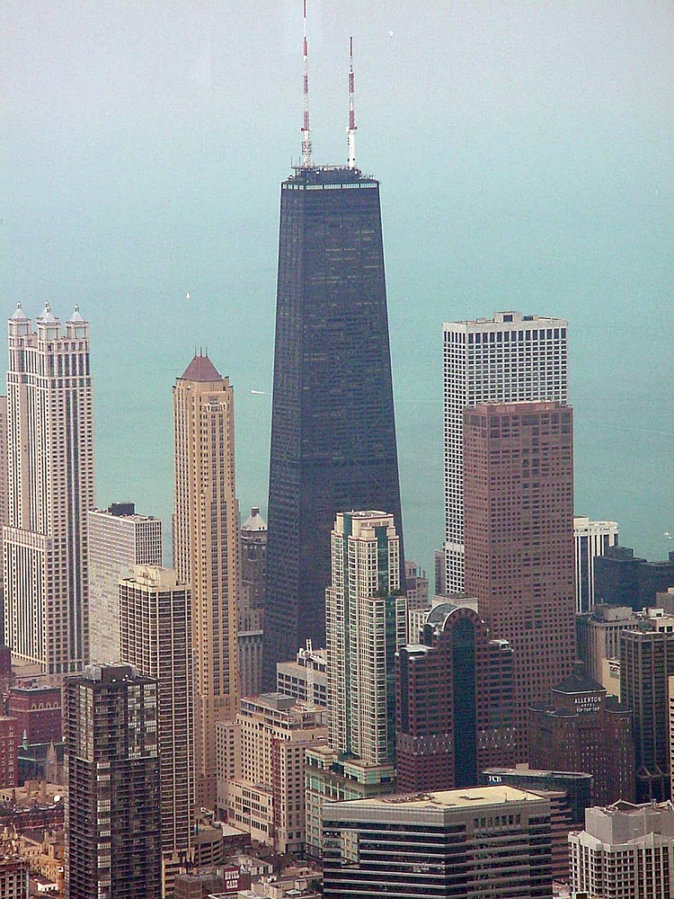 John Hancock Center, Chicago, Illinois, USA